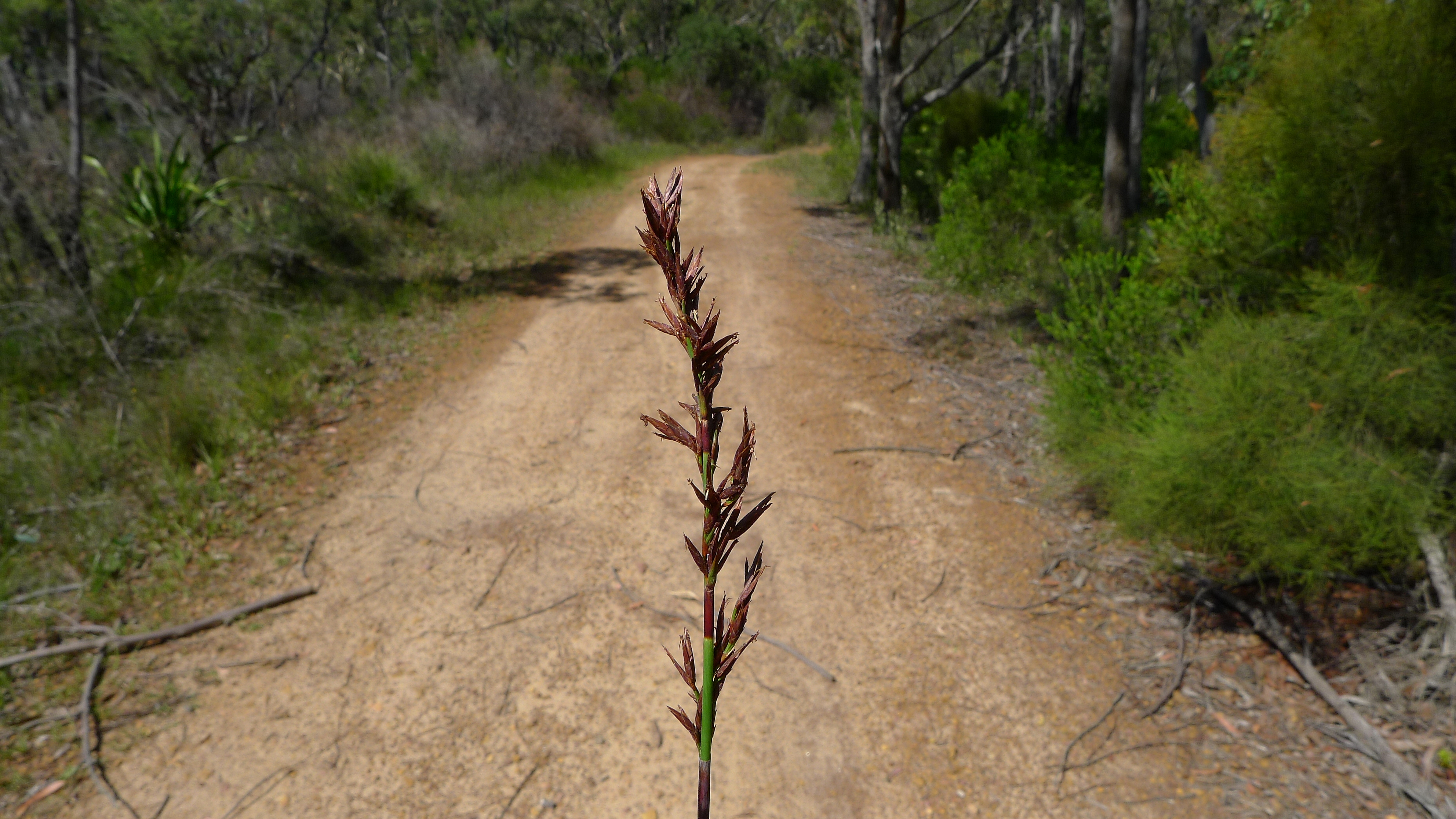 Zig-zag Bog-rush, Schoenus brevifolius. Dharawal National Park, NSW Australia, January 2014.